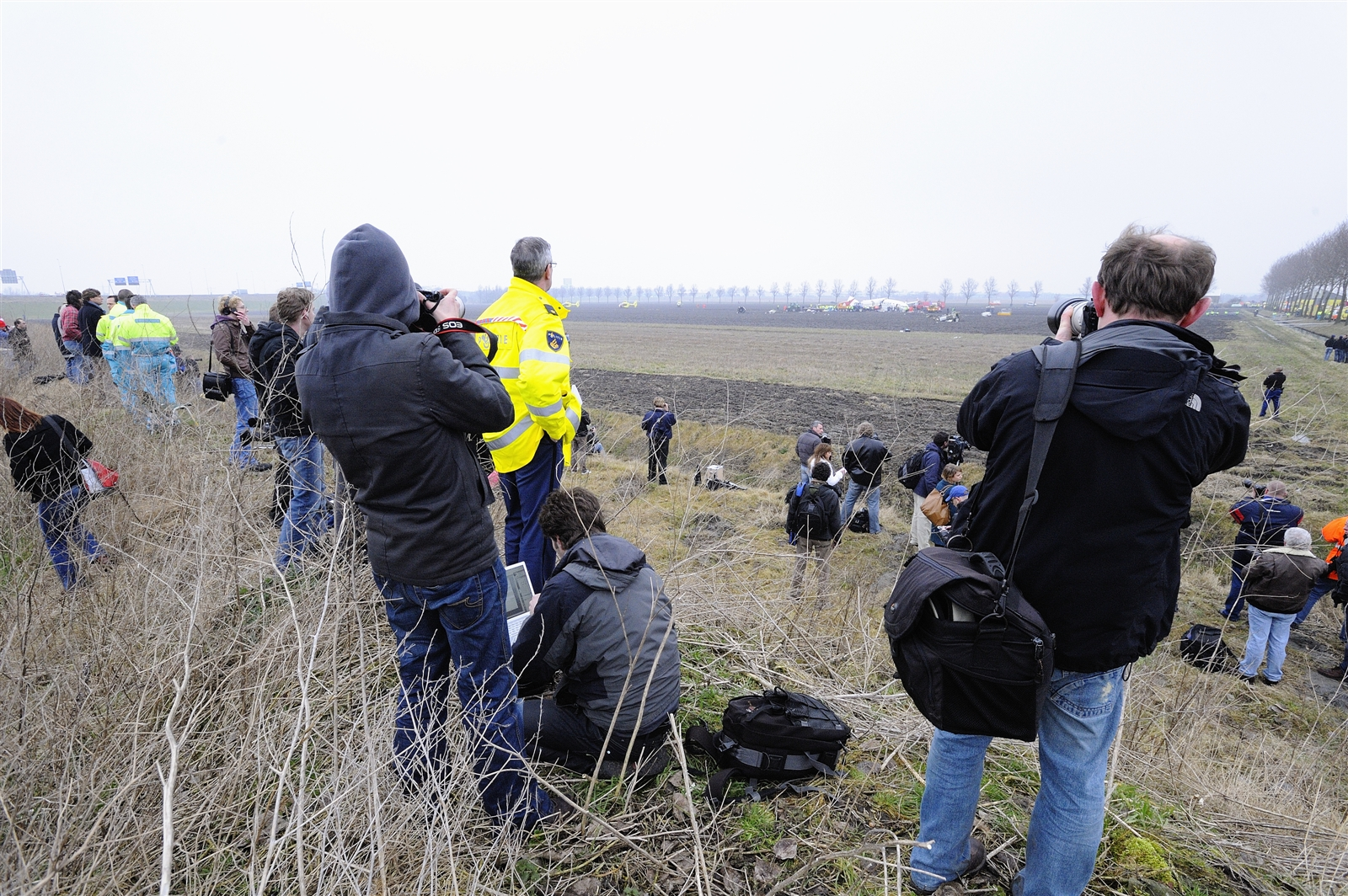 Crash site of Turkish Airlines flight TK 1951 at Schiphol, Amsterdam, The Netherlands. February 25, 2009; Copyright Fred Vloo / RNW